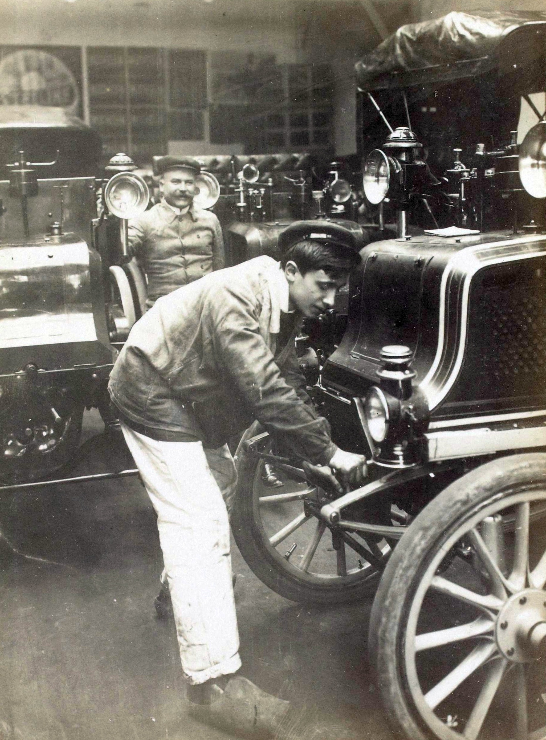 [Collection Jules Beau. Photographie sportive] : T. 8. Années 1898 et 1899 / Jules Beau : F. 13. [Comment on devient chauffeur]